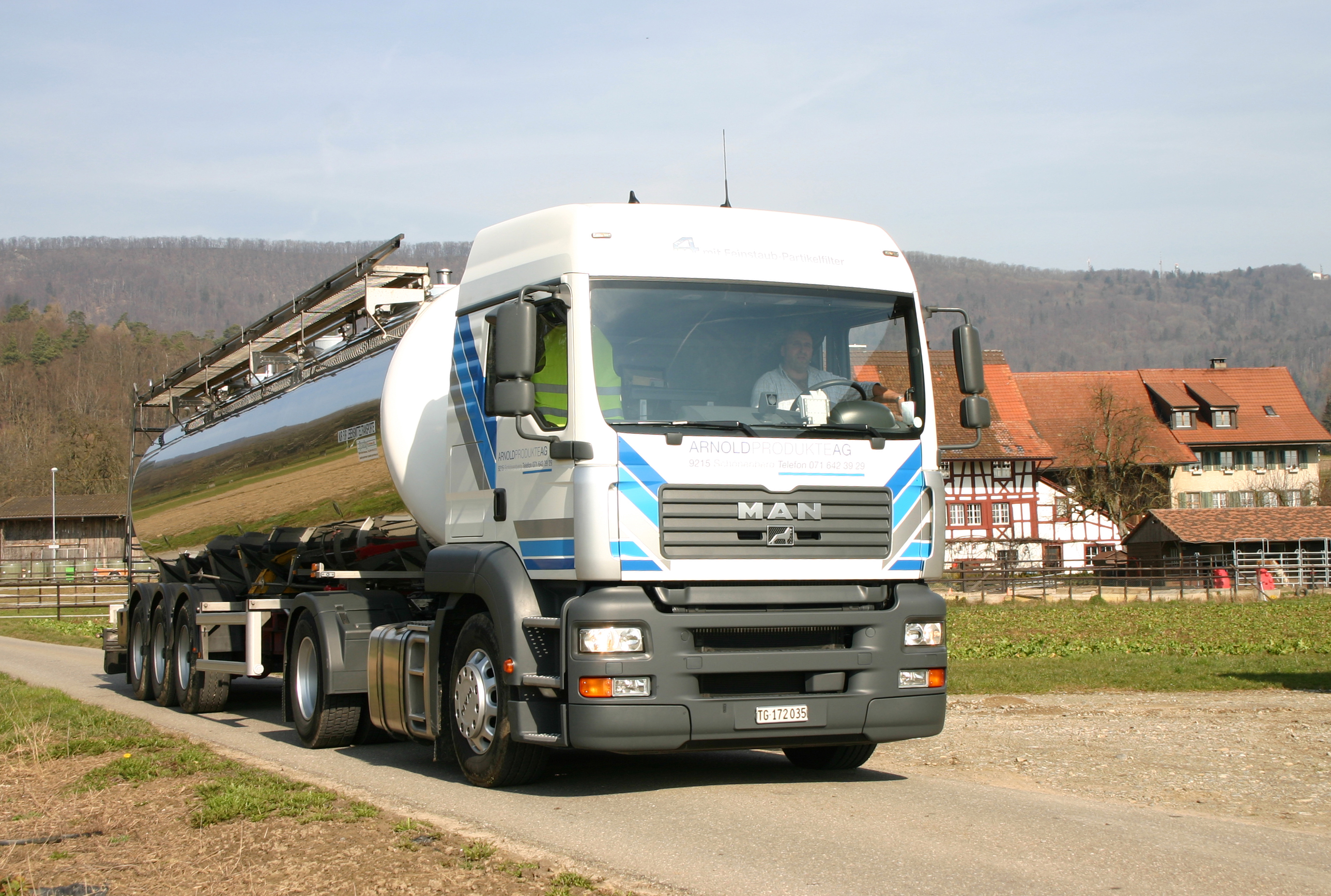 MAN TGA